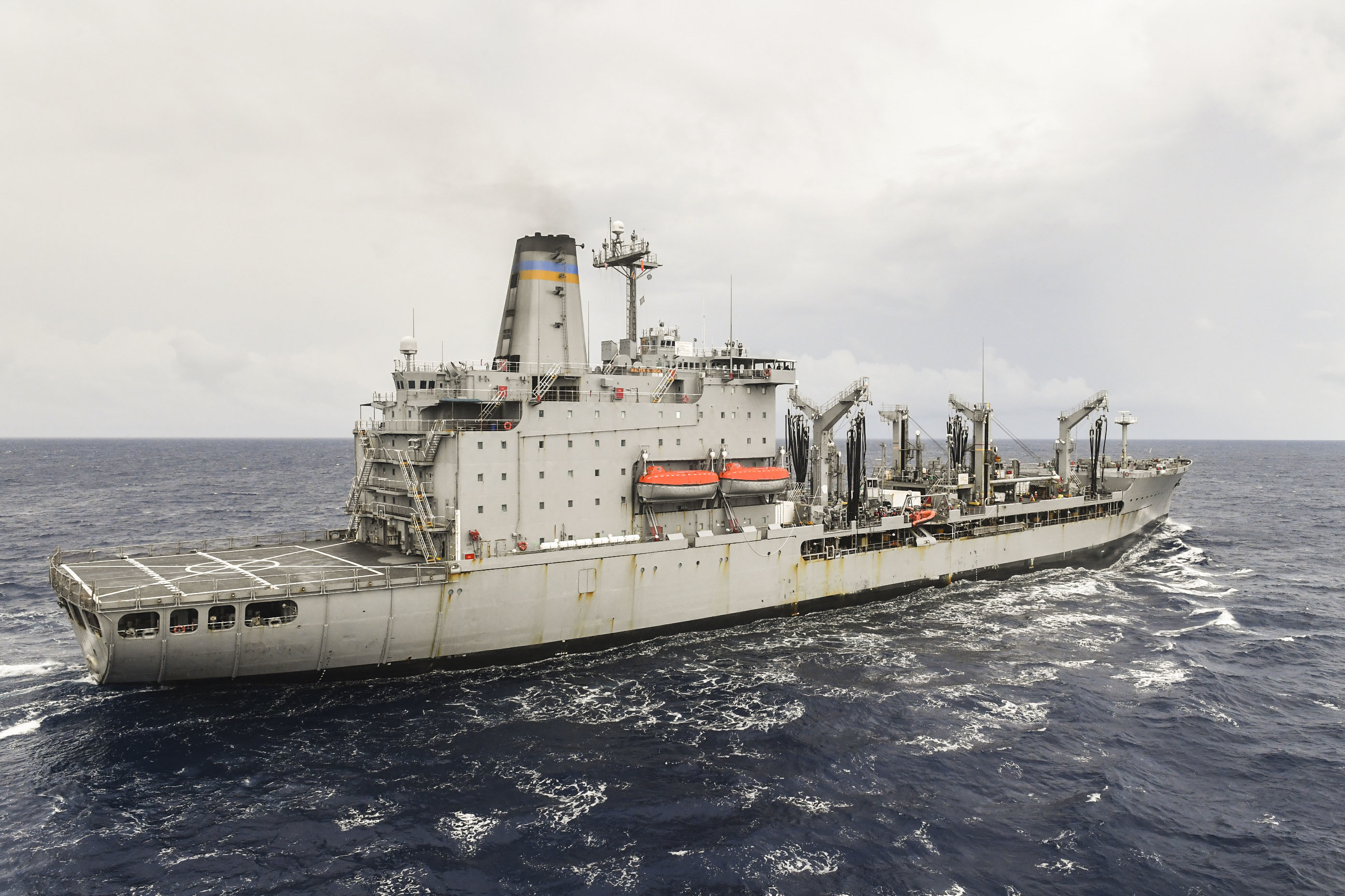 190701-N-QD718- 0012 SOUTH CHINA SEA (July 01, 2019) Sailors aboard the Ticonderoga-class guided-missile cruiser USS Antietam (CG 54) stand by to commence a replenishment-at-sea with the fleet replenishment oiler USNS Walter S. Diehl (T-AO 193). Antietam is forward-deployed to the U.S. 7th Fleet area of operations in support of security and stability in the Indo-Pacific region. (U.S. Navy photo by Mass Communication Specialist 1st Class Toni Burton)